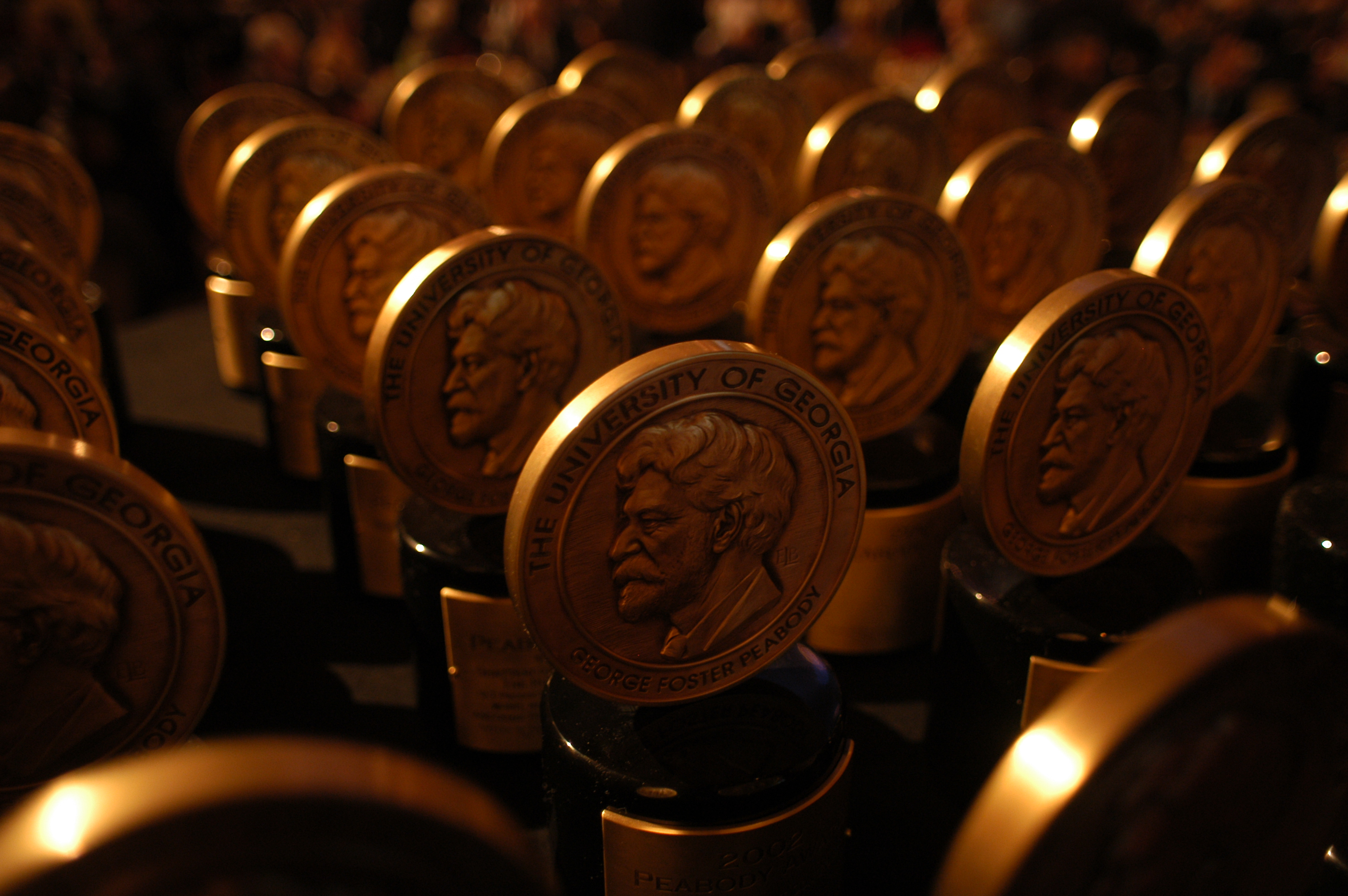 PHOTO CREDIT: ANDERS KRUSBERG / PEABODY AWARDS 62nd Annual Peabody Awards Luncheon Waldorf=Astoria Hotel May 19, 2003